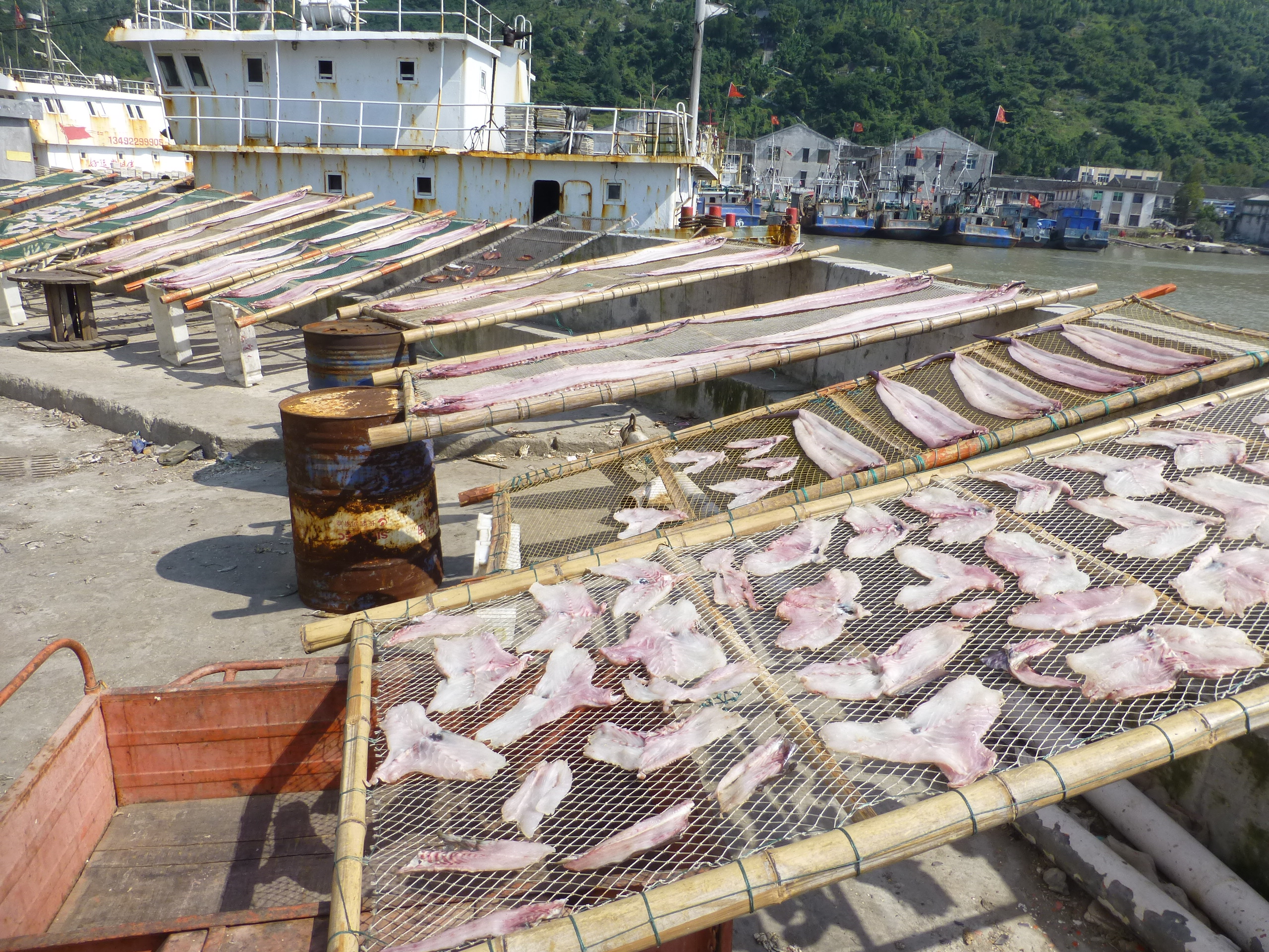 Fish drying near the harbor in Pacao Town (now part of Longgang Town), in Cangnan County, Zhejiang, China.